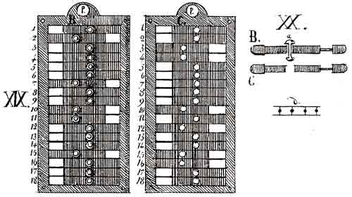 Drawing of komparator